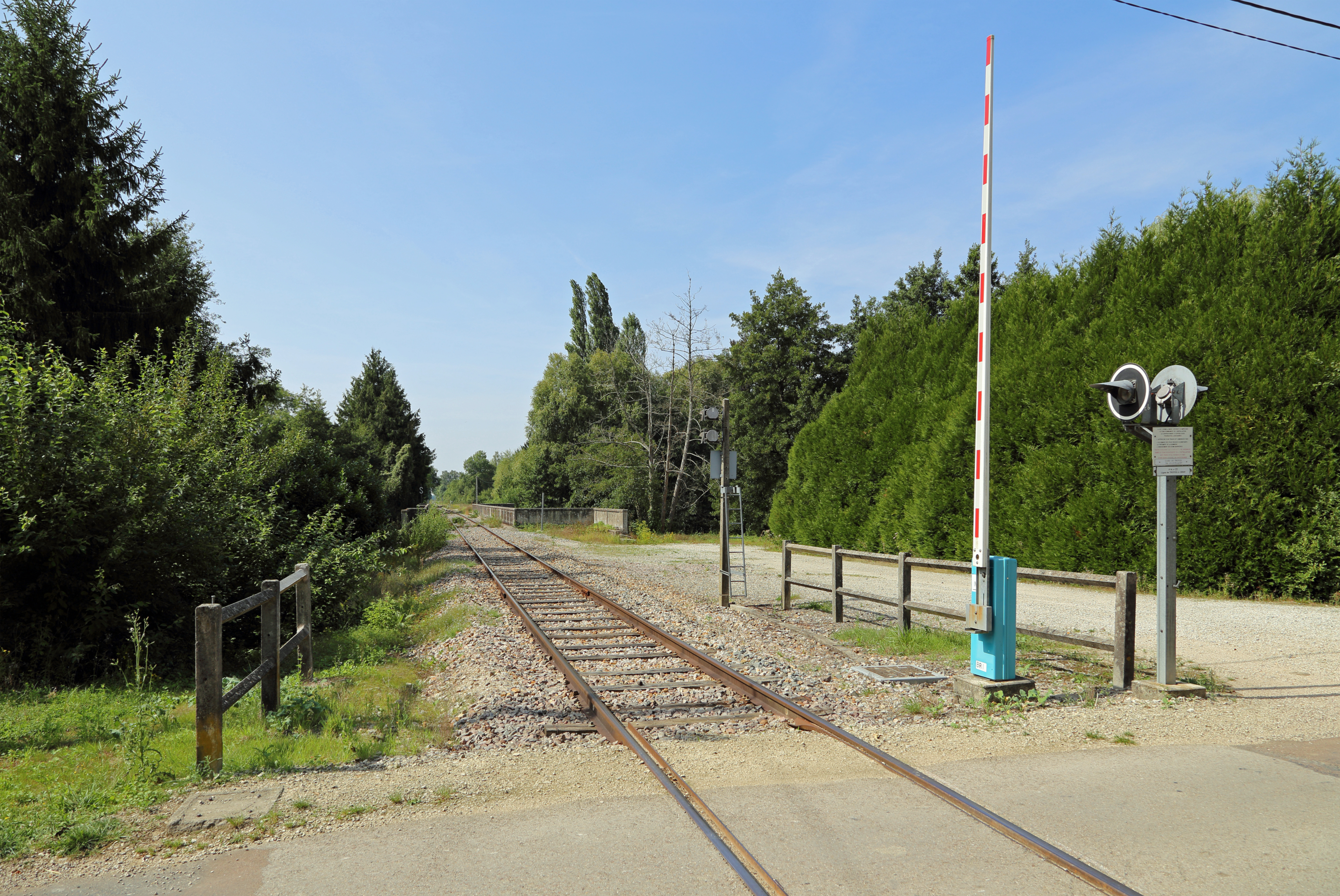 French railway line 838000 from Saint-Julien (Troyes) to Gray, at the level crossing of the D81 road in Fouchères (Aube department, France). In the distance: the railway bridge on the Seine.